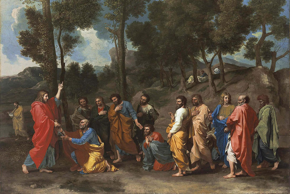 The Sacrament of Ordination (Christ presenting the Keys to Saint Peter)label QS:Len,"The Sacrament of Ordination (Christ presenting the Keys to Saint Peter)"